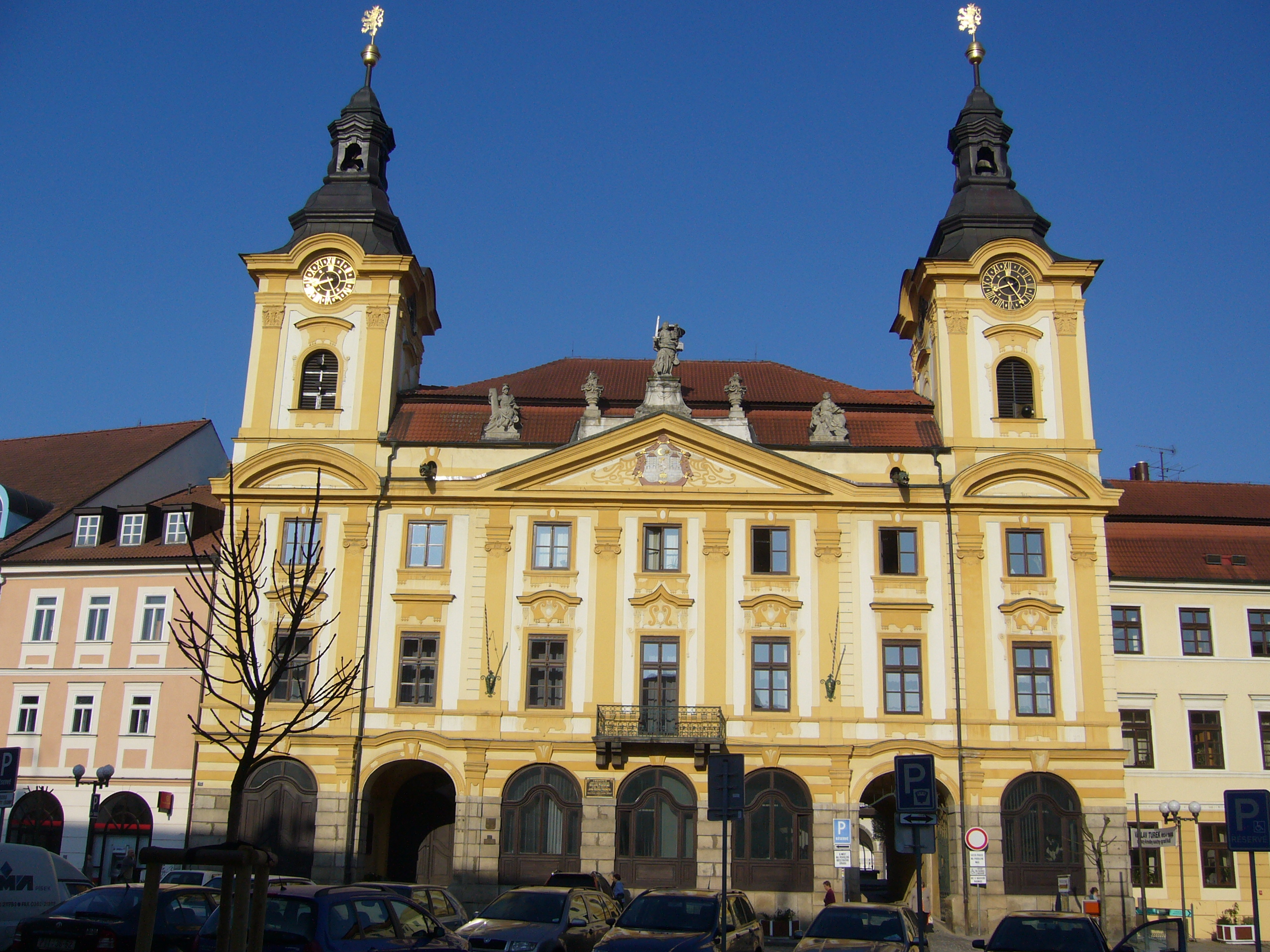 Town Hall in Písek, Velké náměstí Nr. 114/3, South Bohemia region